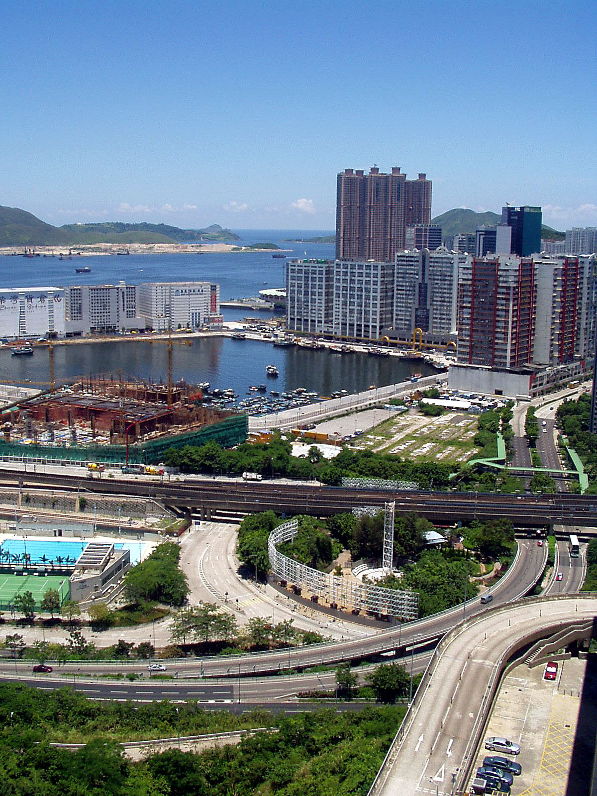 Chai Wan in 2005 柴灣